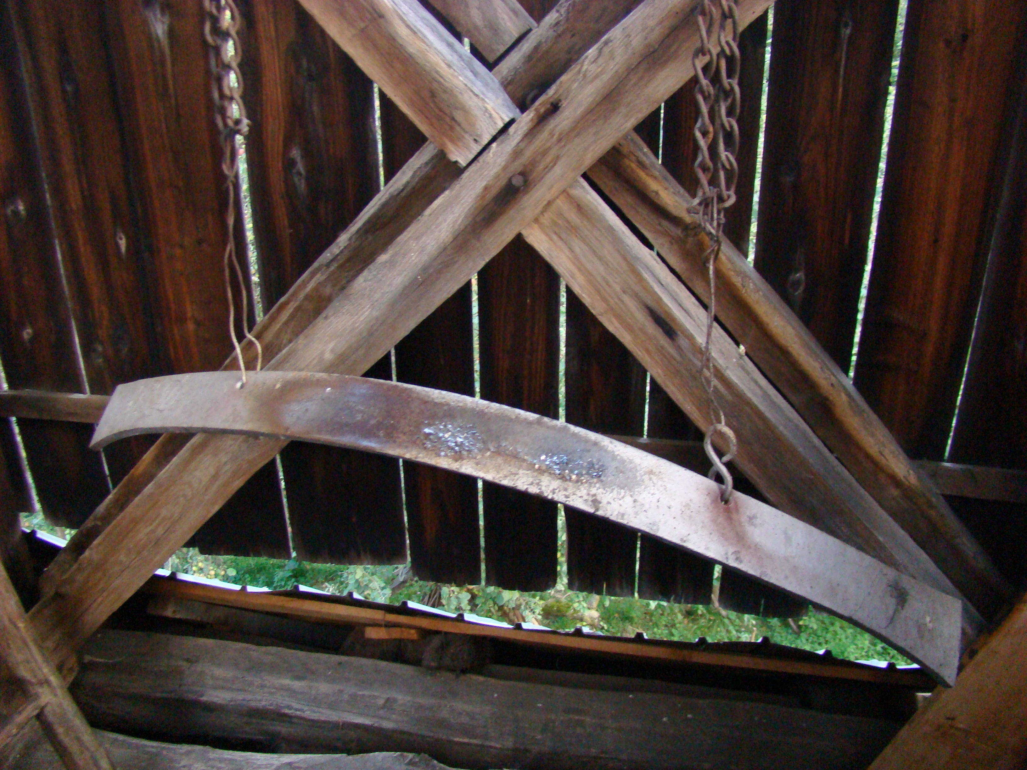 Wooden church in Vărzăroaia, Argeș county, Romania